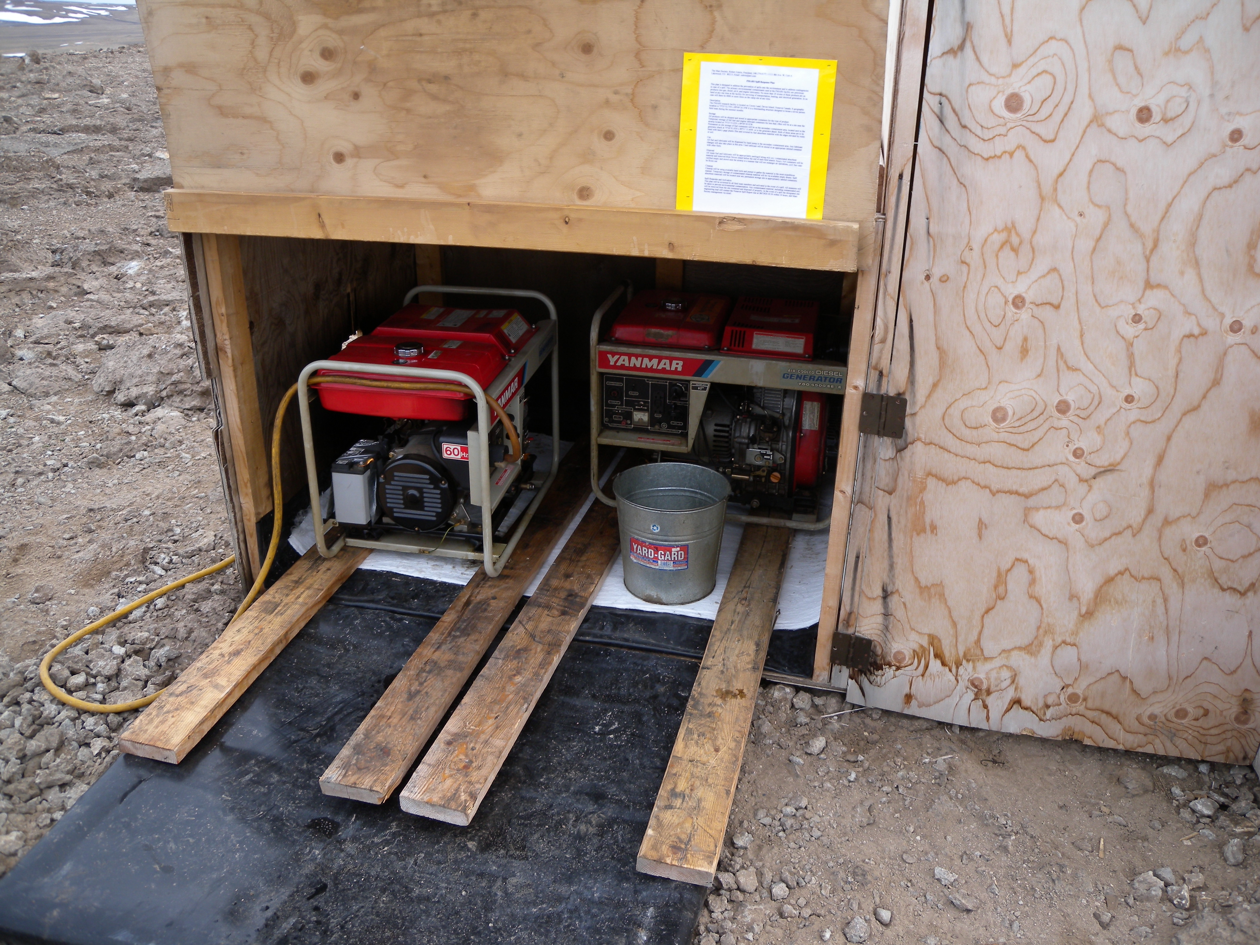 FMARS Generator Shed, located in proximity to the Flashline Mars Arctic Research Station (FMARS) on Devon Island, Nunavut, Canada. The station's two Yanmar diesel generators are shown. Image taken by Joseph E. Palaia, IV on 7/7/2009 during the 2009 FMARS expedition.